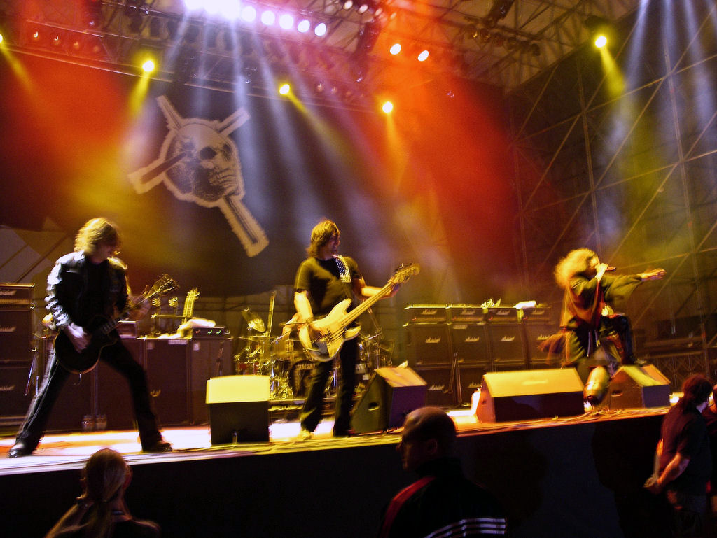 Swedish Heavy metal band Candlemass